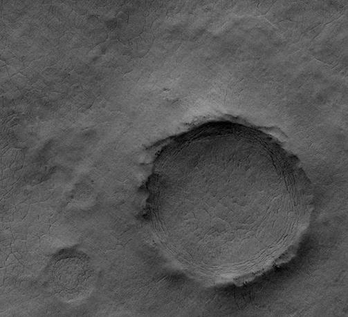 Hutton Crater Area, as seen by hirise. location is 71 degrees south latitude and 50 degrees east longitude. Image was taken by the Mars Reconnaissance Orbiter's HiRISE. The HiRISE camera was built by Ball Aerospace and Technology Corporation and is operated by the University of Arizona. Image courtesy NASA/JPL/University of Arizona.